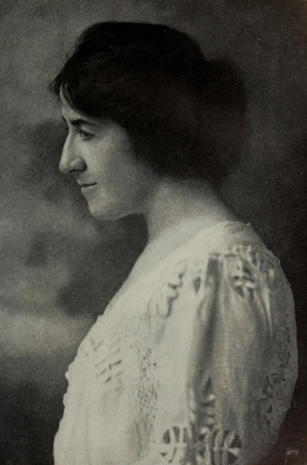 Portrait of Dora Keen